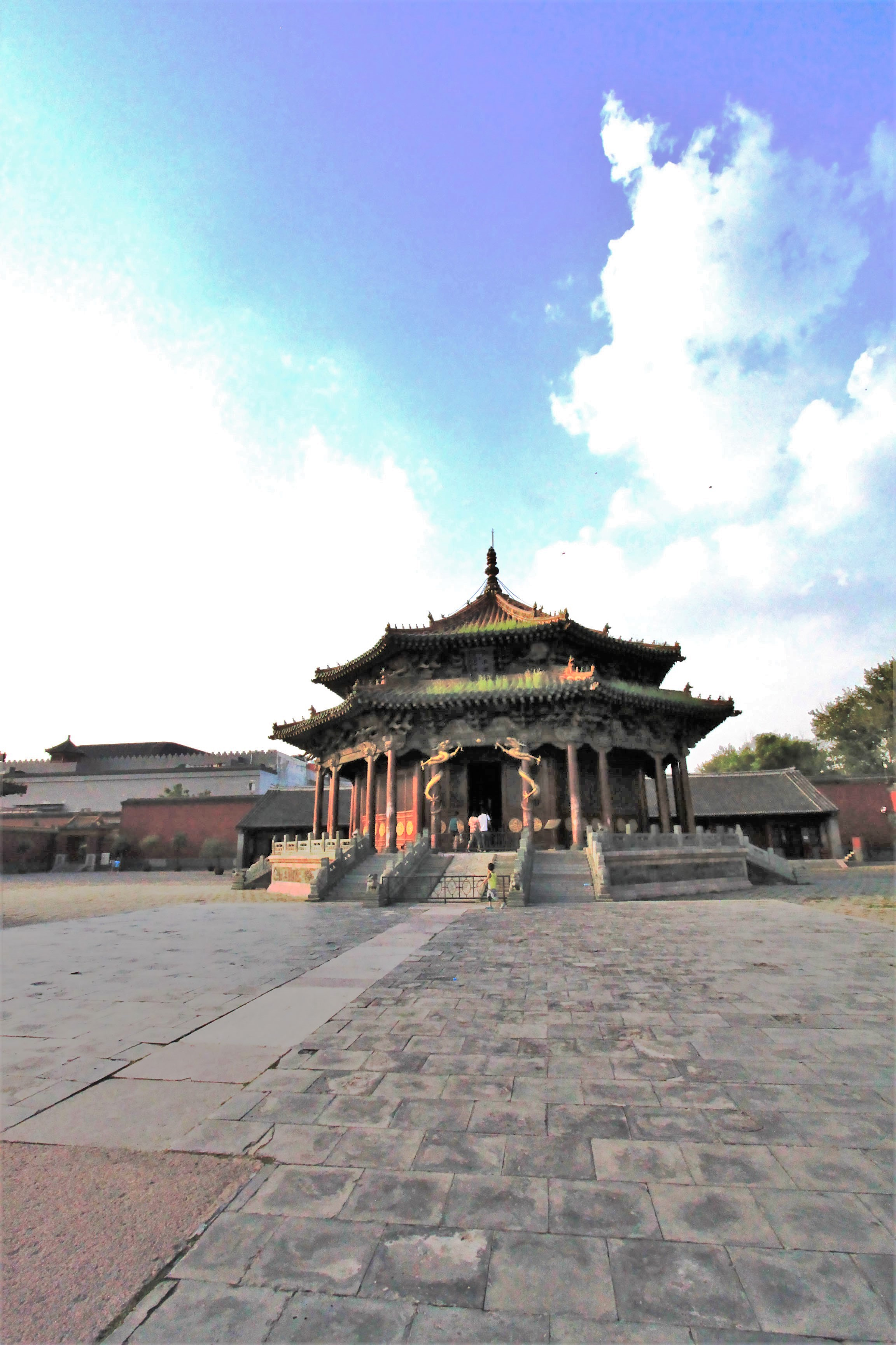 Shenyang Mukden Palace (Octagon Hall).